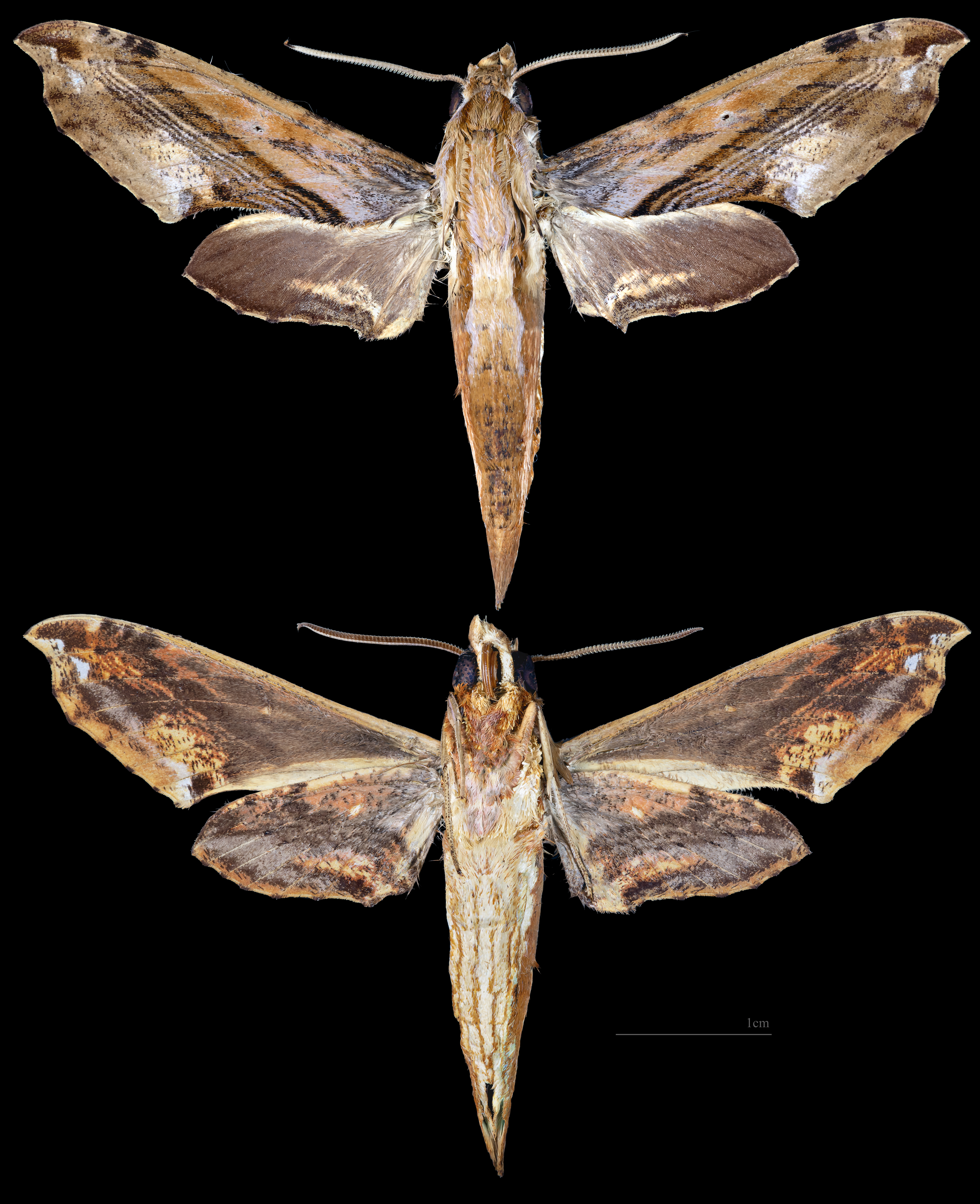 Eupanacra sinuata - Two views of same specimen Collection of the Mathematician Laurent Schwartz